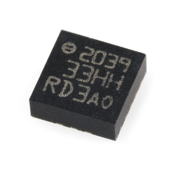 The LIS331HH is an ultra low-power full-scale three axis linear MEMS accelerometer. It has a digital I2C/SPI serial interface which makes it ideal for using in embedded applications. The device also features ultra low-power operational modes that allow advanced power saving and smart sleep to wake-up functions. The LIS331HH has dynamically user selectable full scales of +-6g/+-12g/+-24g and is capable of measuring accelerations with output data rates from 0.5 Hz to 1kHz. The self-test capability allows the user to check the functioning of the sensor in the final application. [1]